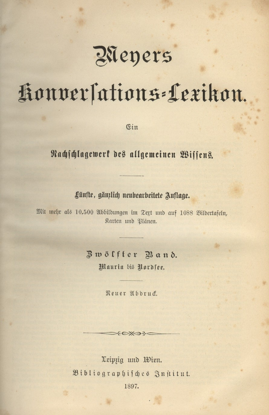 Meyers Konversations-Lexikon 5th edition (1897), "Twelfth Volume" - "Mauria" to "Nordsee".